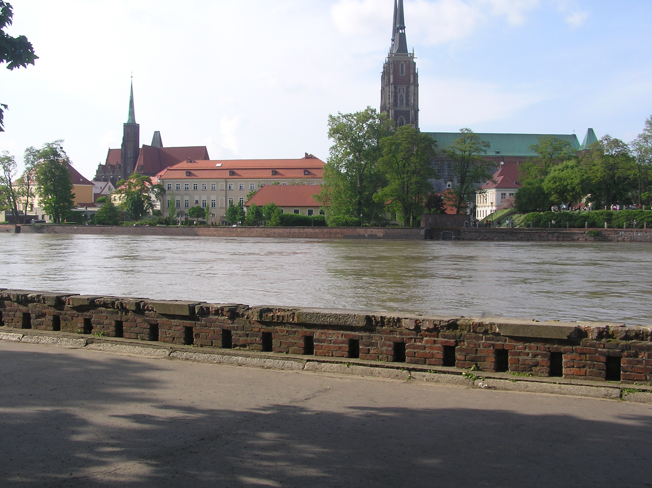 Wrocław, Xawerego Dunikowskiego Boulevard, Ostrów Tumski